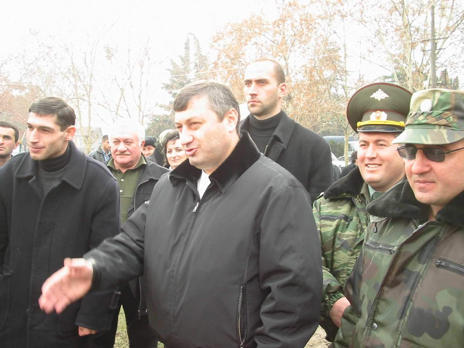 Mr. Eduard KOKOITY, President of the Republic of South Ossetia burns drugs at an anti-drug ceremony in Tskhinval.